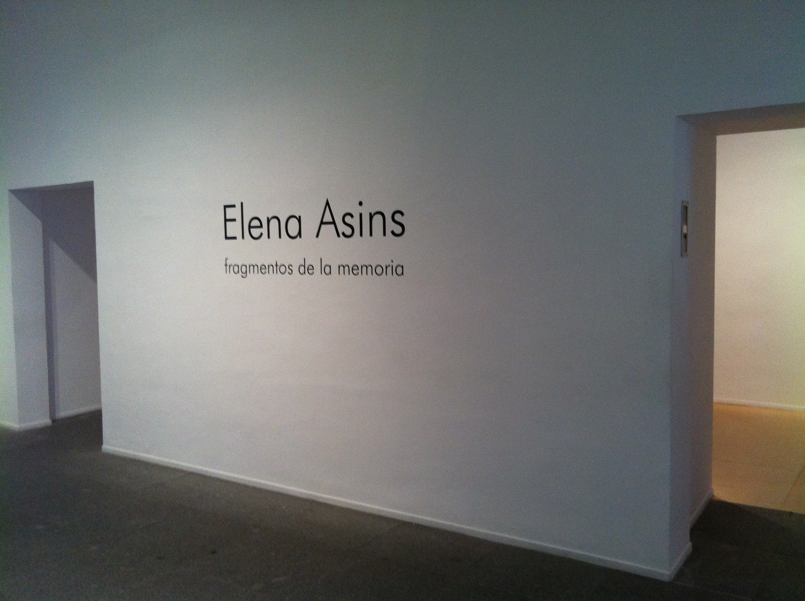 Interior views of Museo Reina Sofia